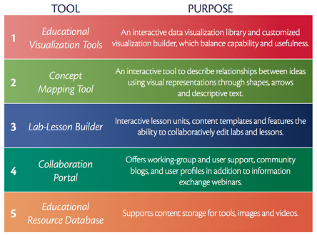 A diagram of the functioning components of the OOI's Education and Public Engagement program